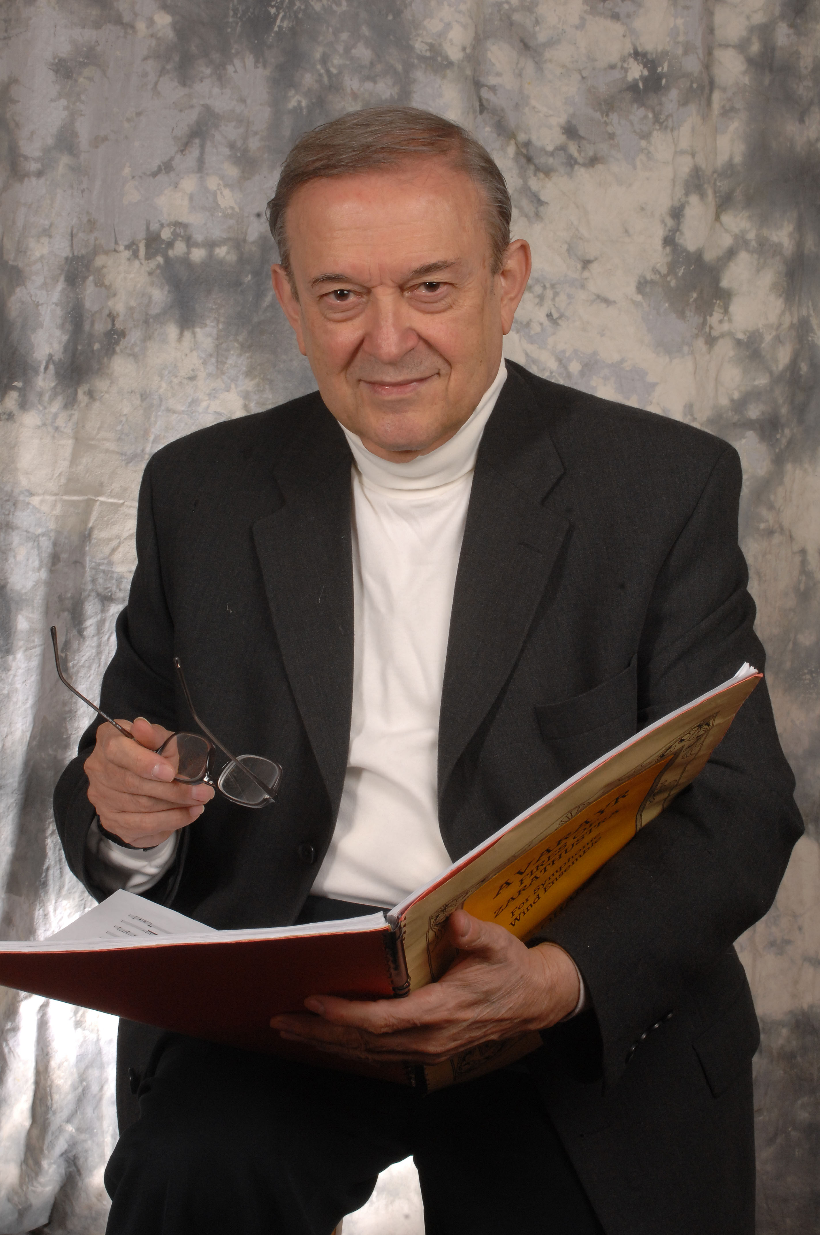 Depicted person: Loris Ohannes Chobanian – American conductor